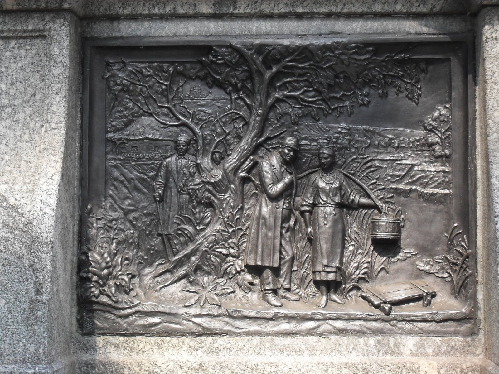 Plaque showing scene form the play Natalka Poltavka on the monument ot its author Ivan Kotlyarevsky in Poltava, Ukraine. Sculptor L. Pozen (1903)